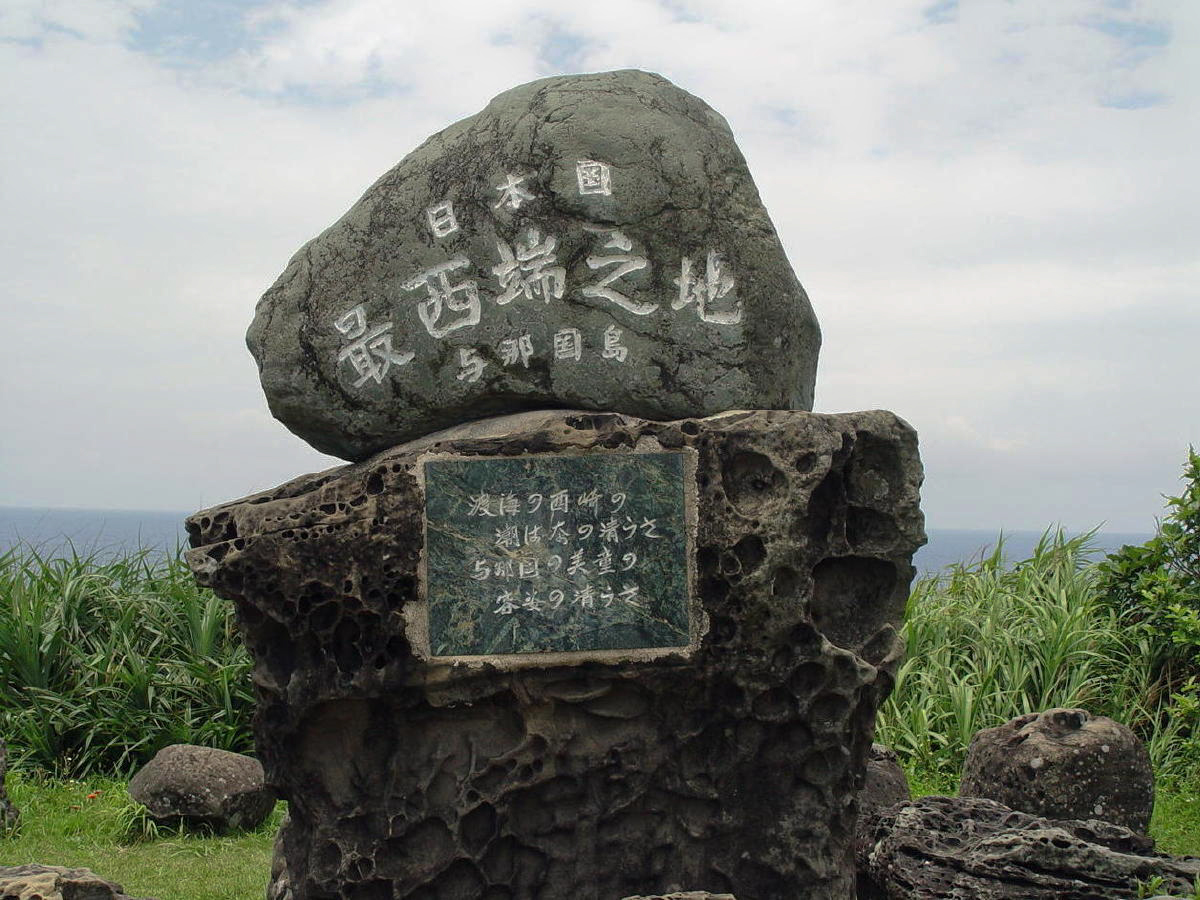 Yonaguni The stele of west end of Japan.